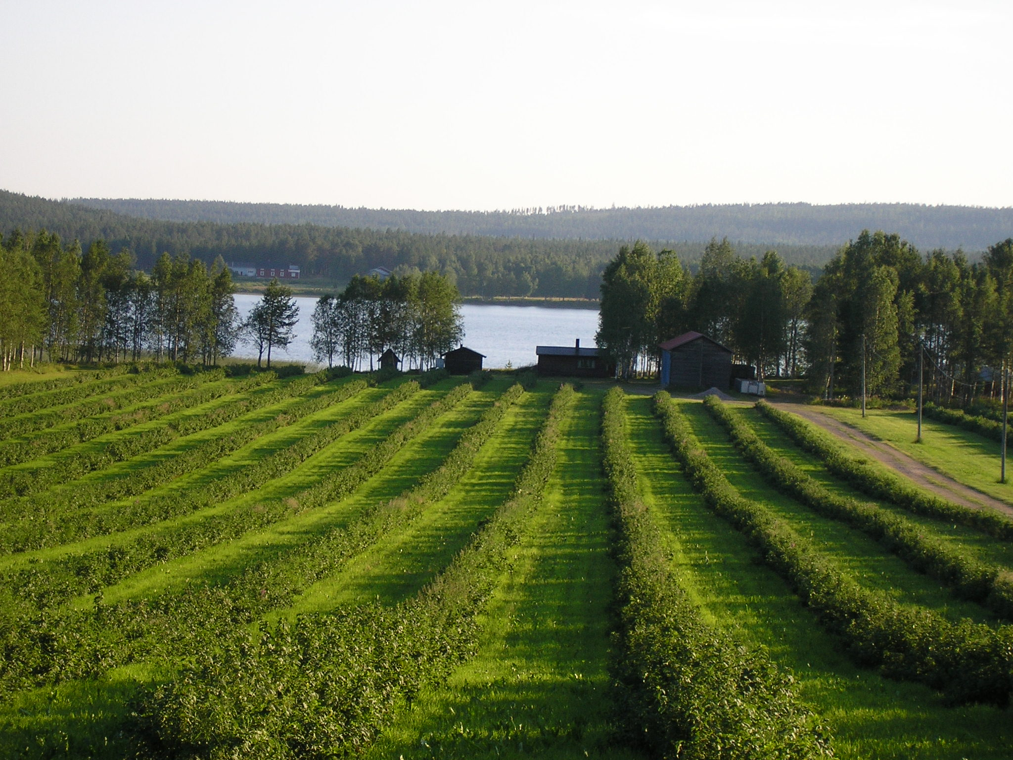 Tornevalley